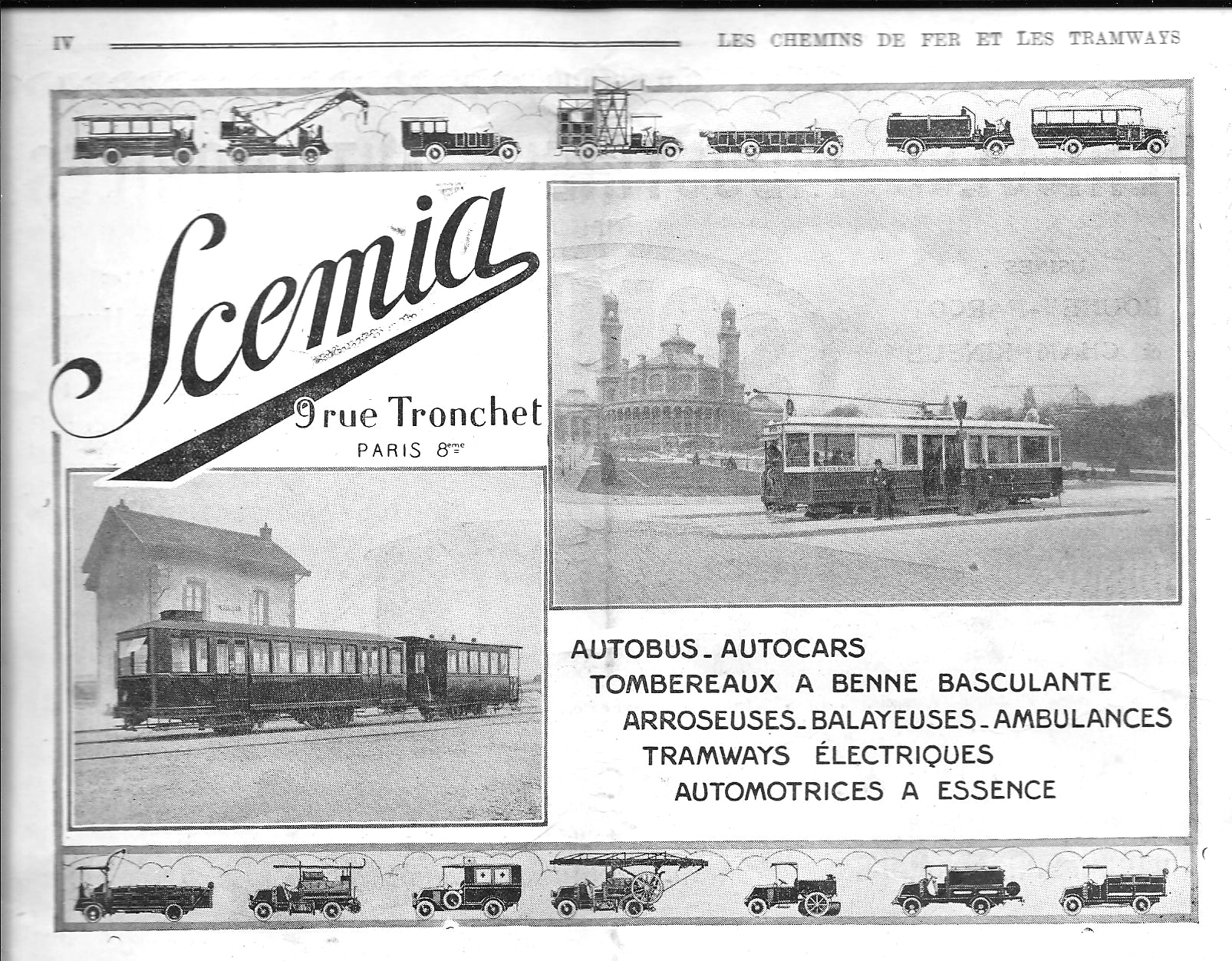 Scemia advertisement of trams